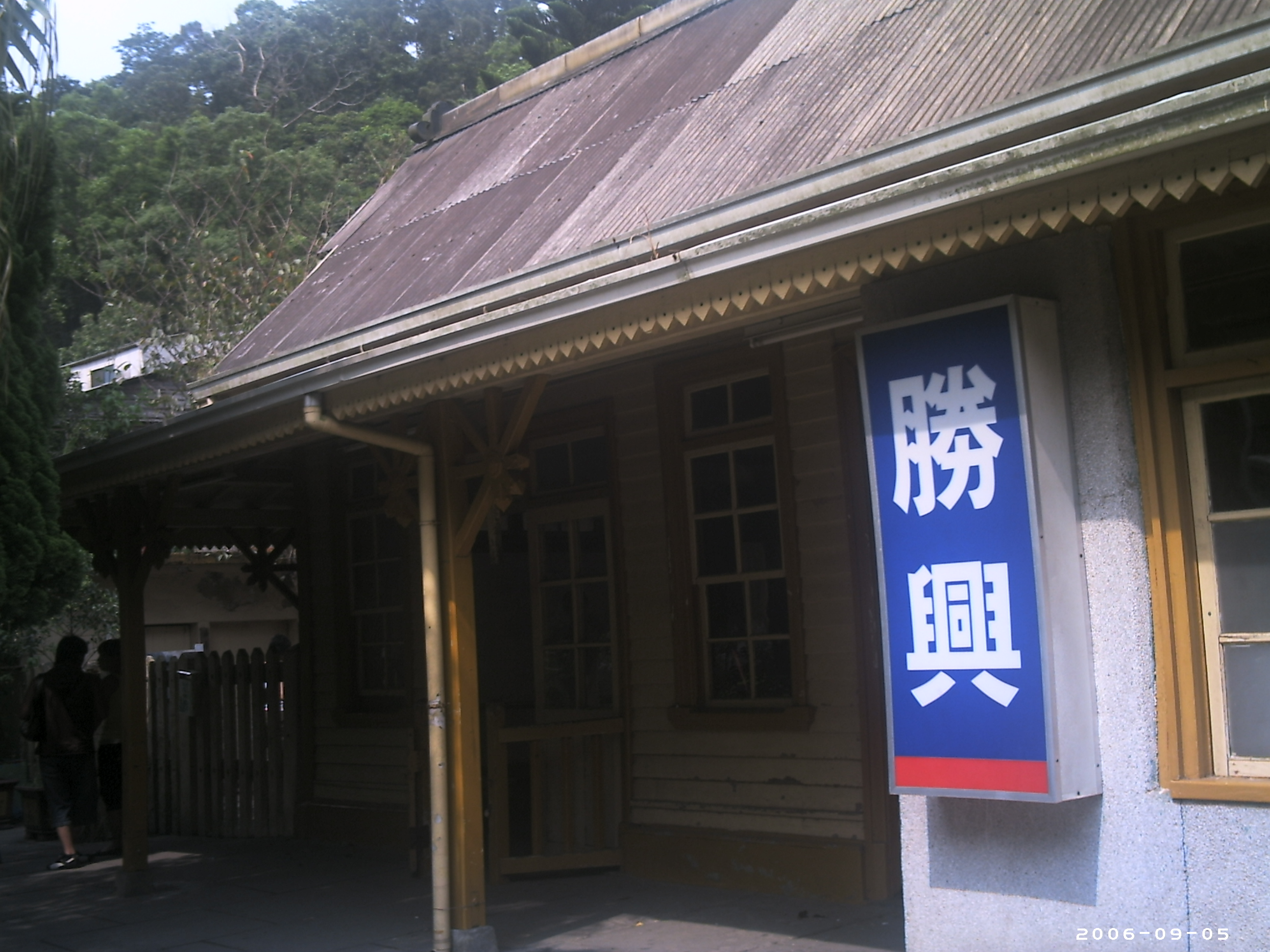 TRA Shengsing Station